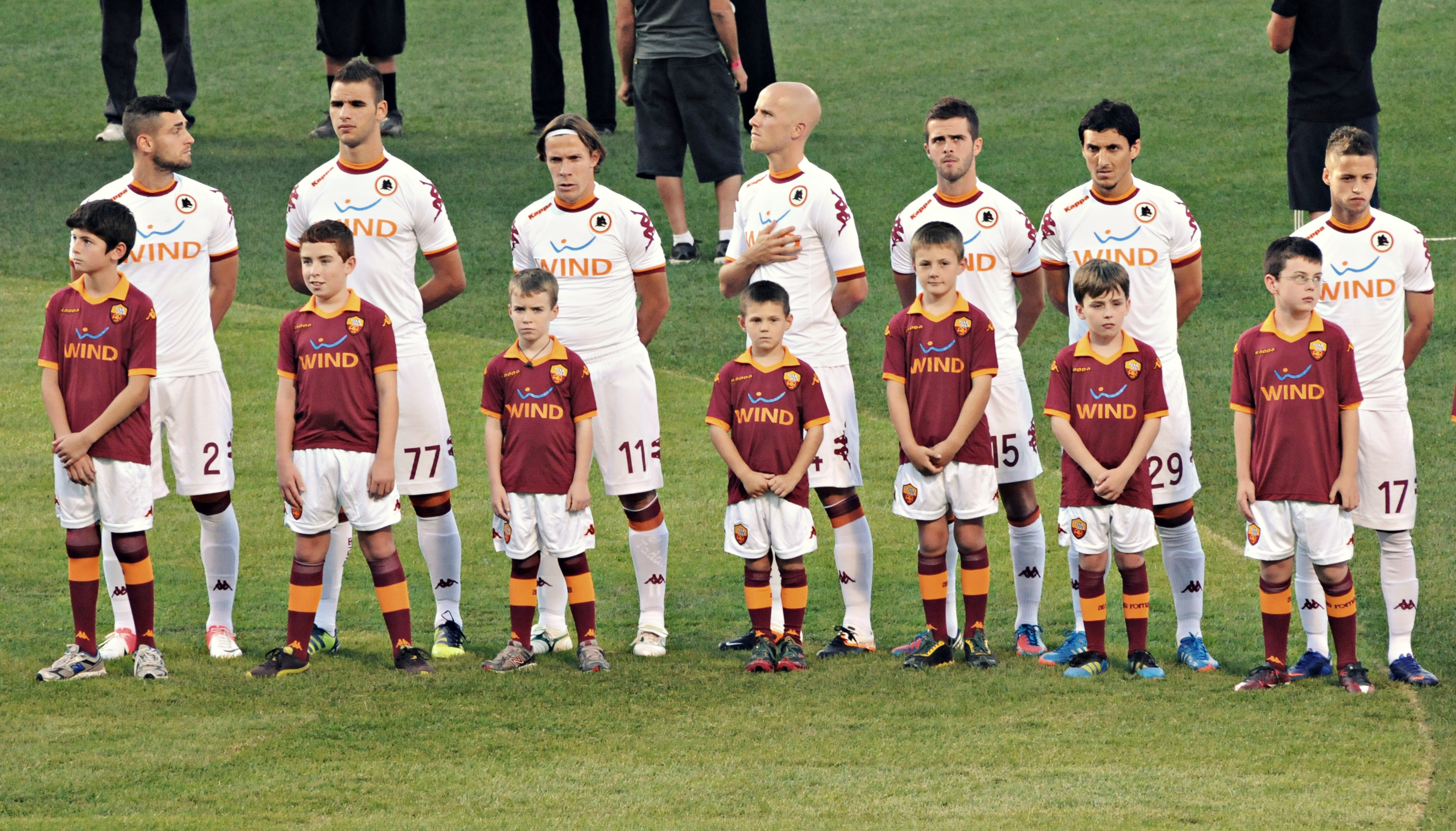 LFC vs Roma @ Fenway Park (Boston, Massachusetts)